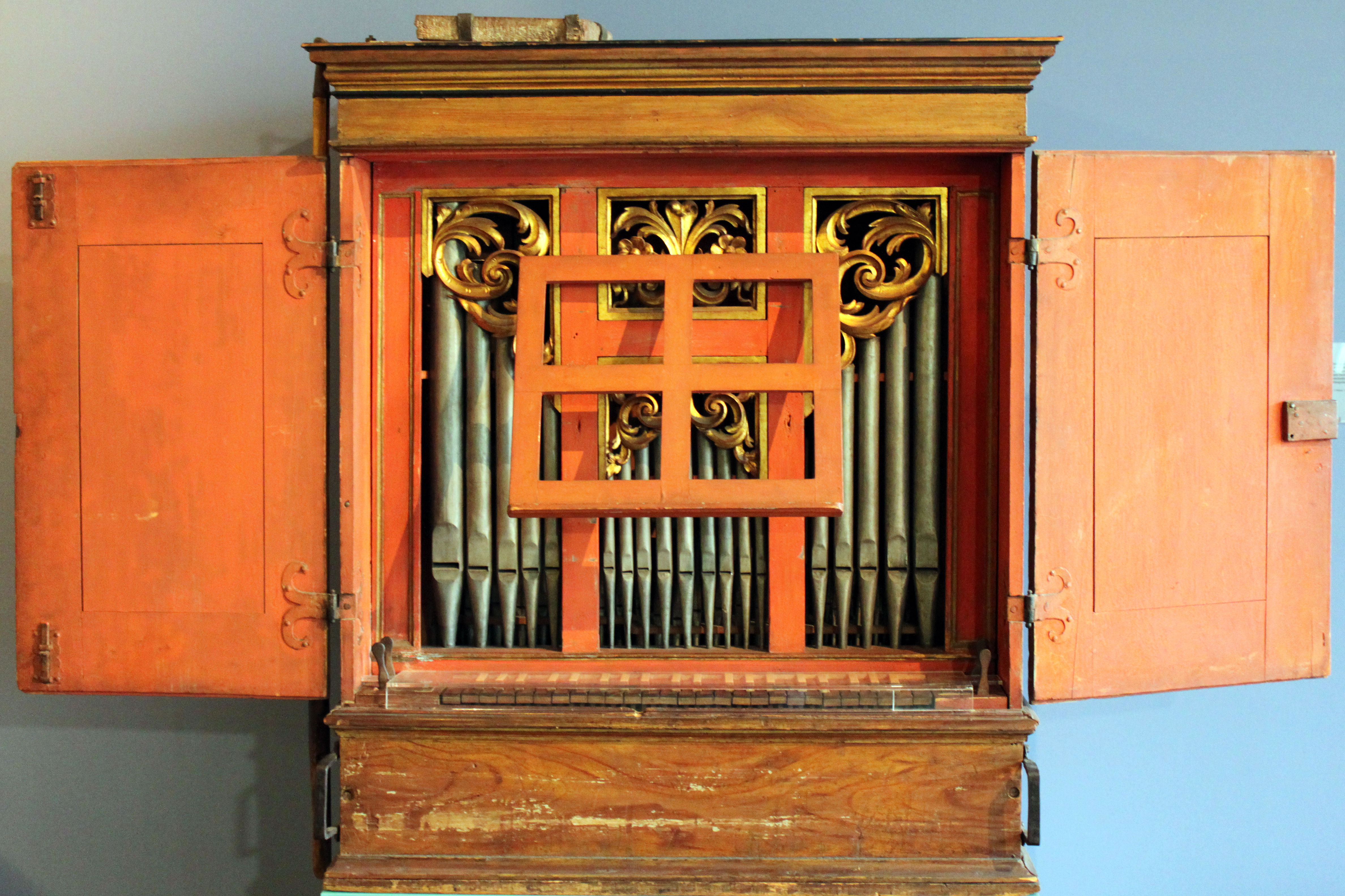 Procession Organ from Georgenried (Tegernsee), 1720; Germanic National Museum in Nuremberg